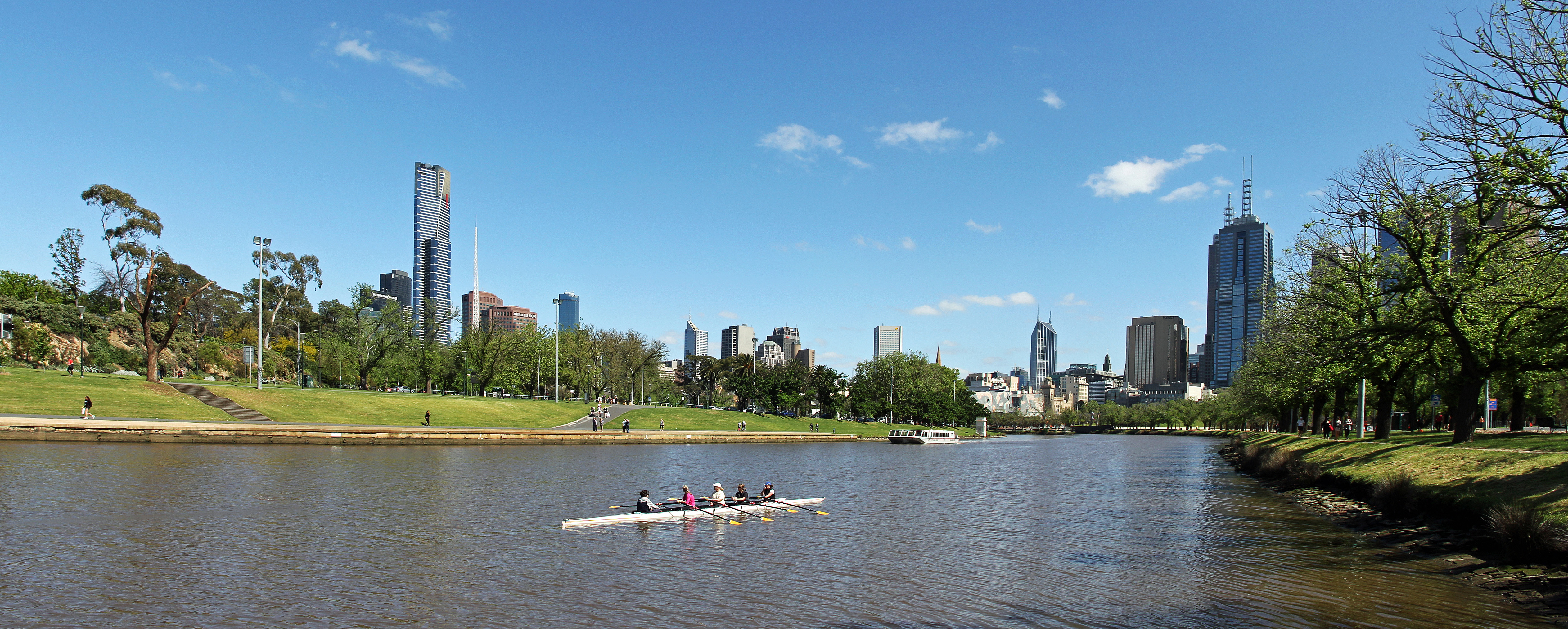 Yarra River & Melbourne City Skyline View at Alexandra Gardens